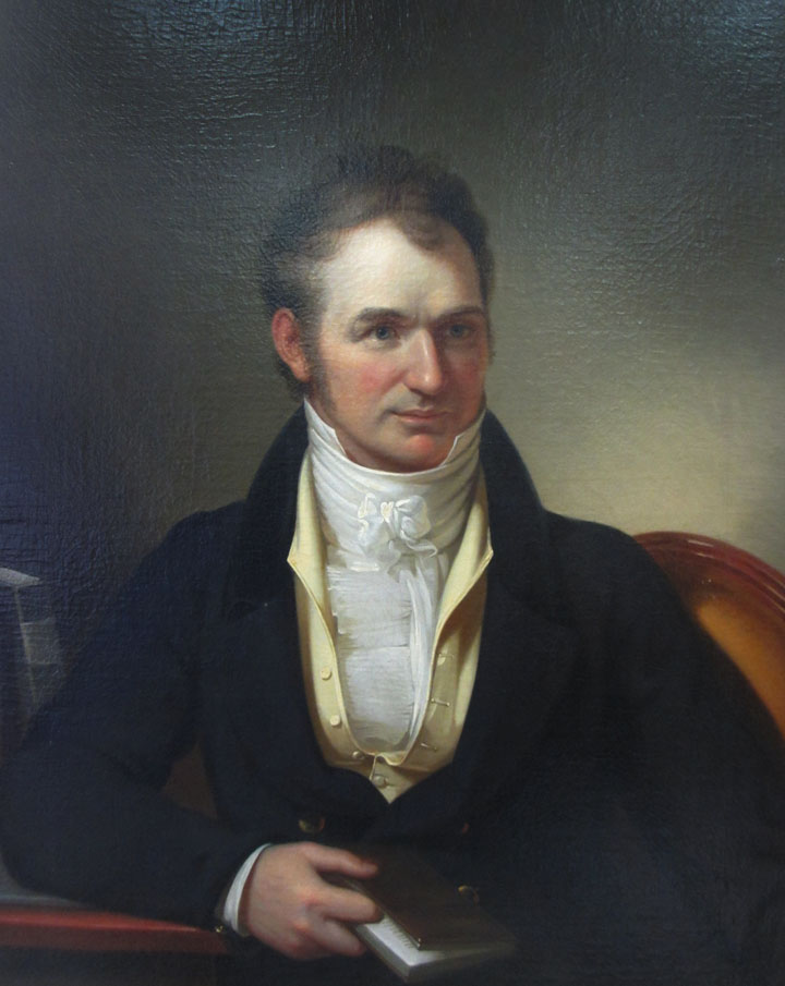 This Rembrandt Peale portrait of Horace H. Hayden was given to the Medical & Chirurgical Faculty of Maryland (MedChi) by Mrs. Mary Parkhurst Hayden in 1934.